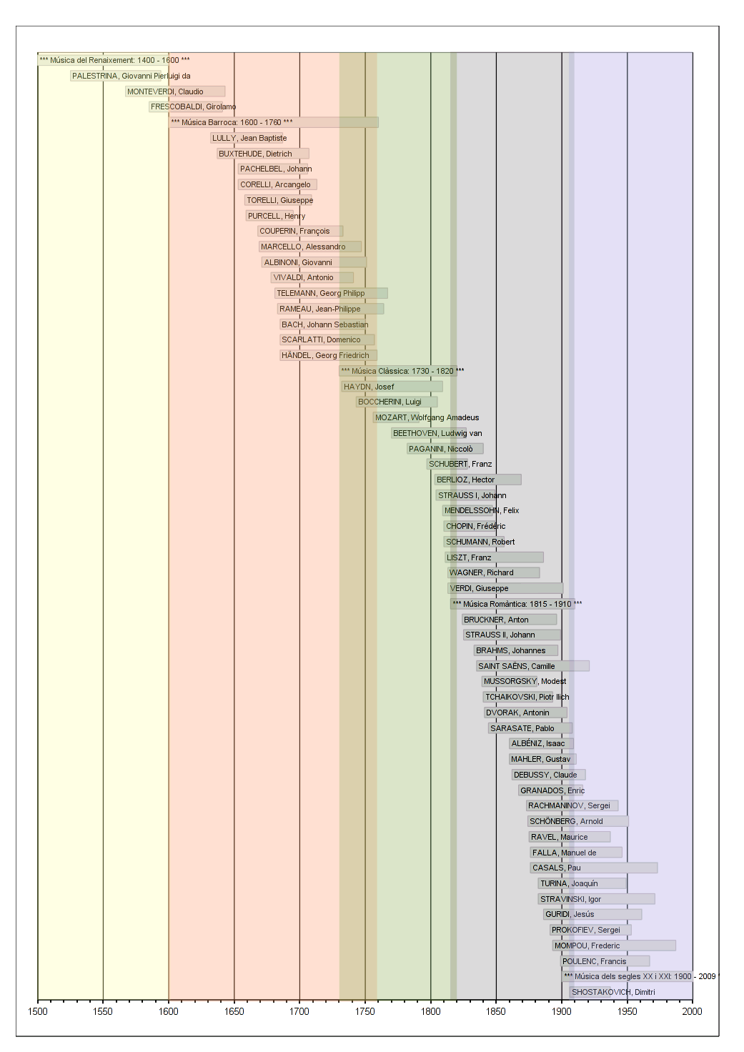 Western music compositors from XVIIth to XIXth Centuries. The boxes show the years they lived and the colors show approximately the periods in the history of music.